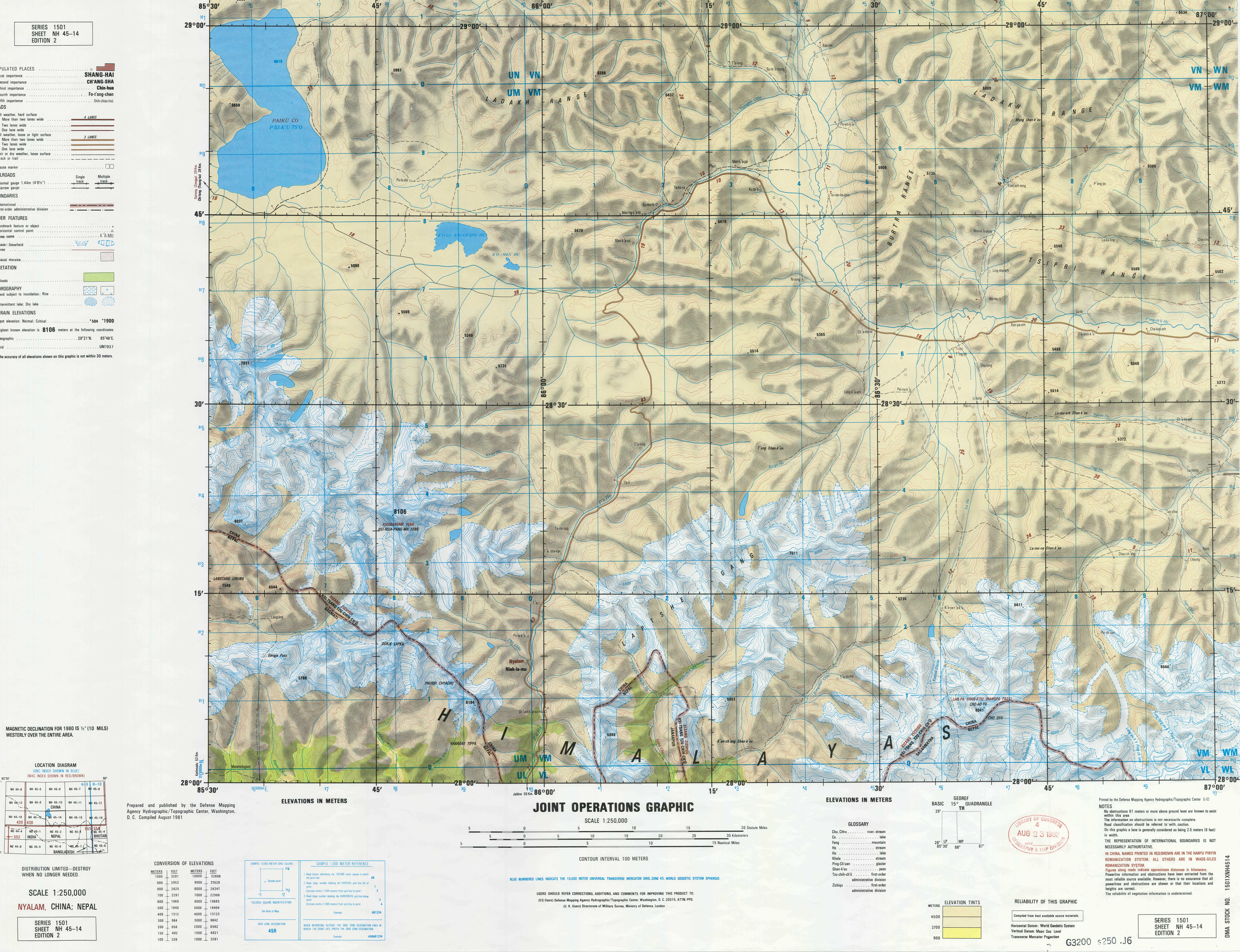 NH-45-14 Nyalam China